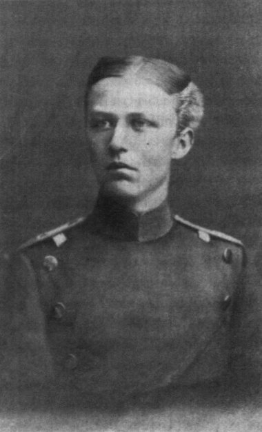 Lt. Erich Ludendoff 1882 in Wesel in an age of 17